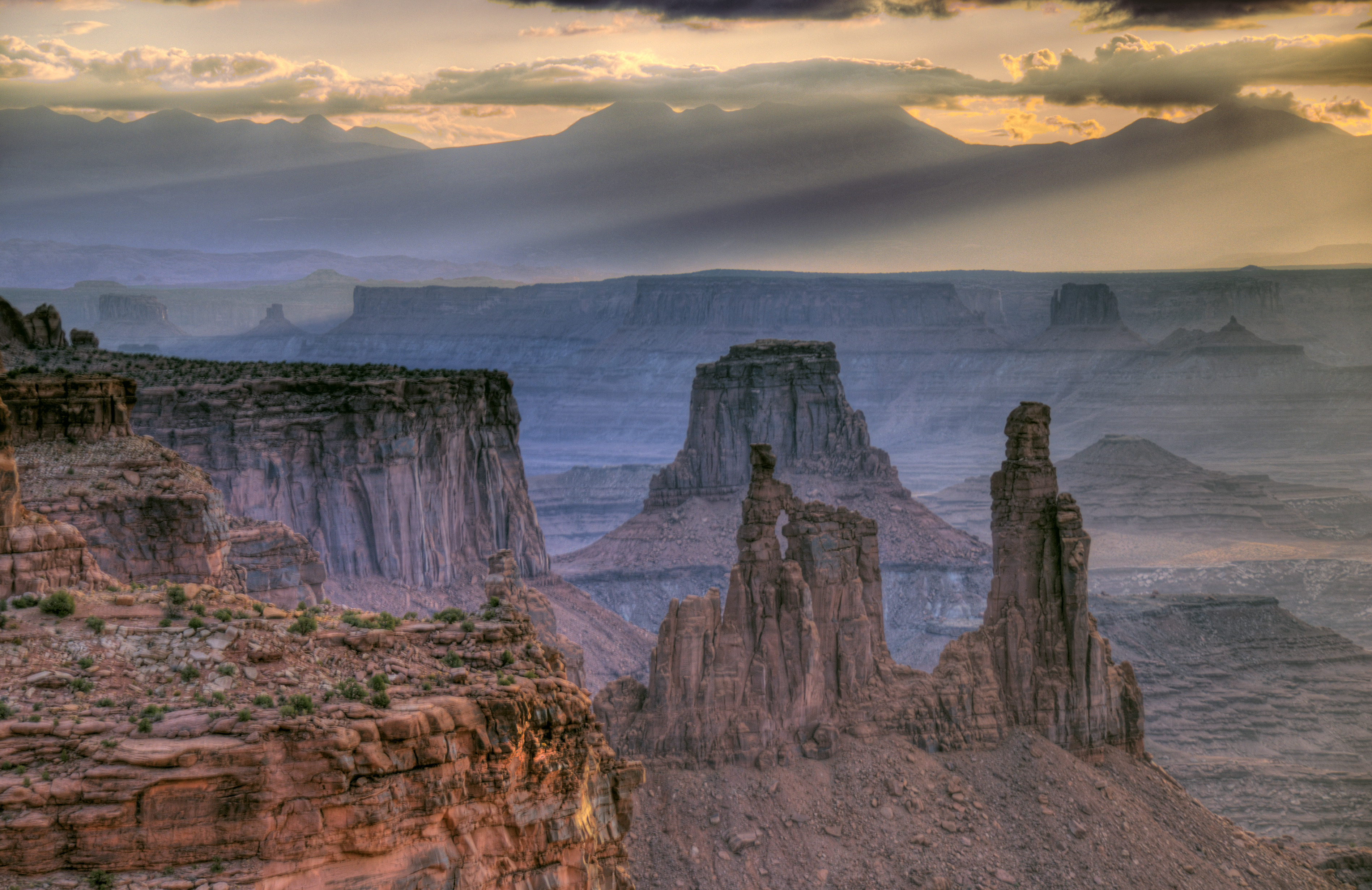 Canyonlands National Park at sunrise